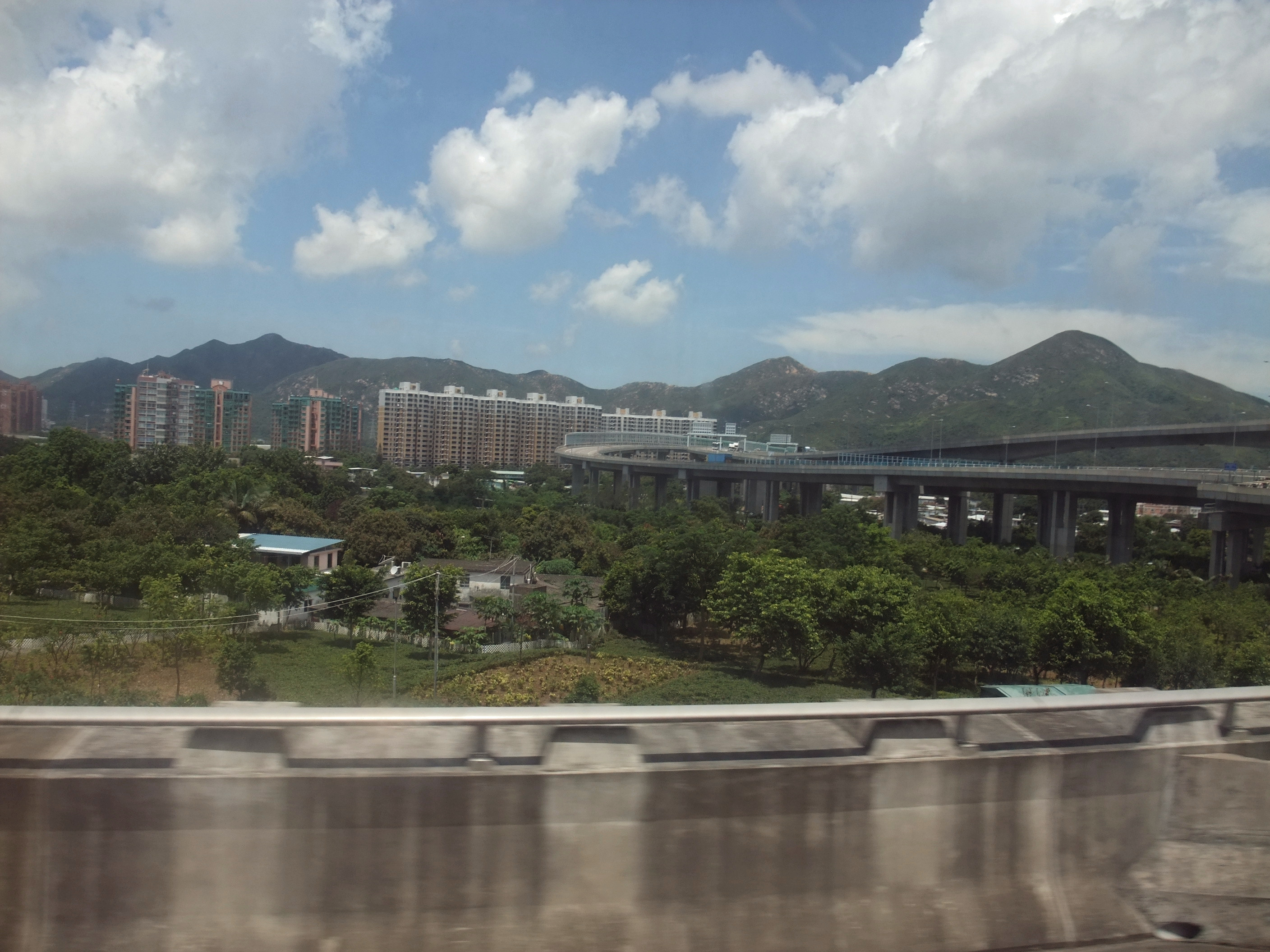 View from Yuen Long Highway on "The Sherwood" and Kong Sham Western Highway. In the back Lau Fau Shan